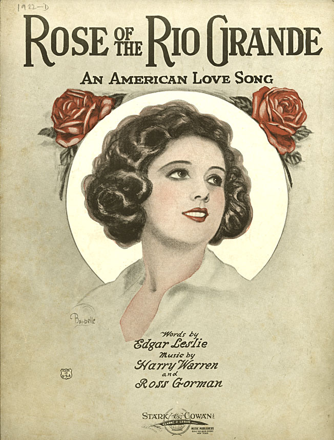 "Rose of the Rio Grande" sheet music cover. Words by Edgar Leslie ; music by Harry Warren & Ross Gorman.